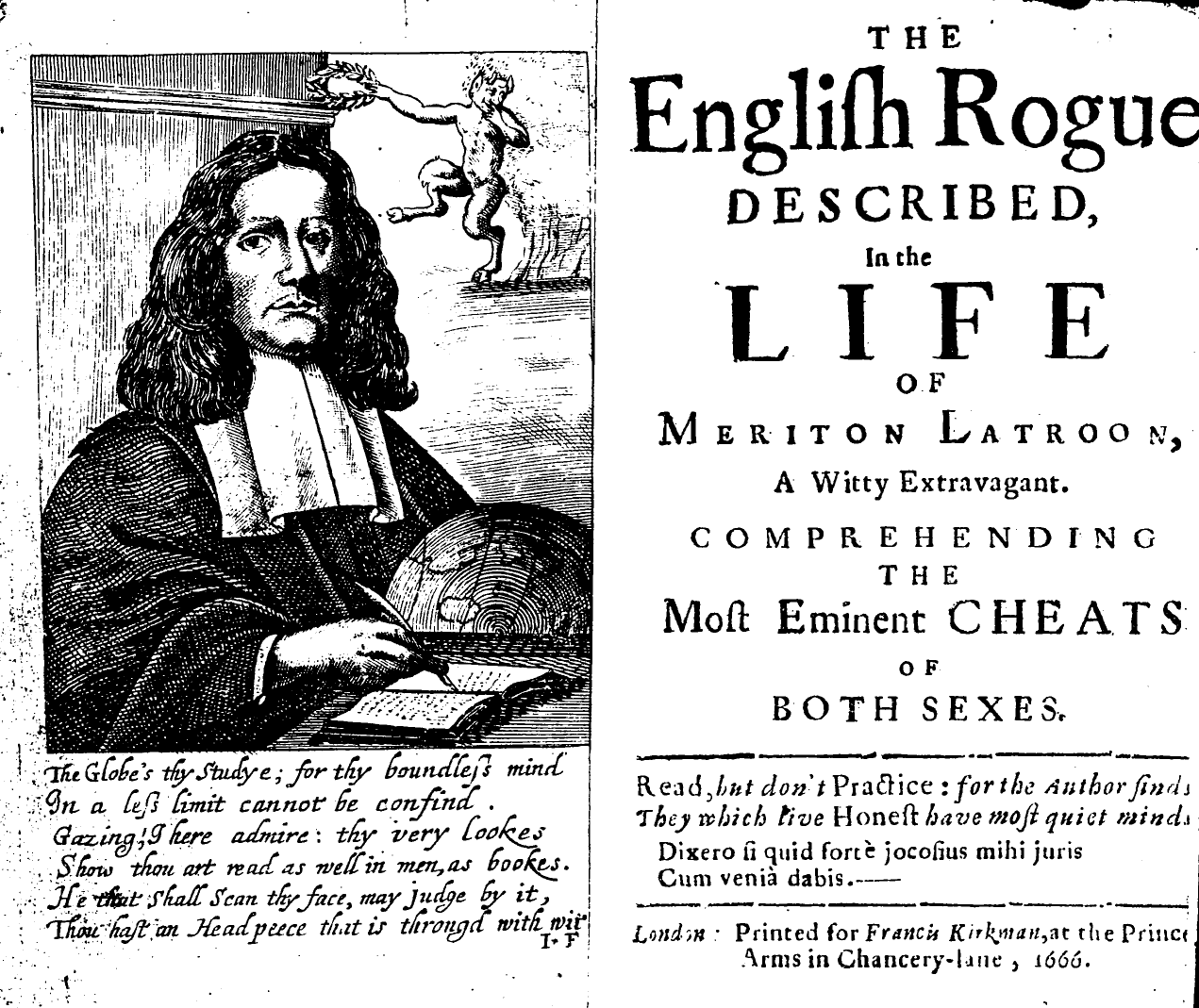 Head, Richard (1637?-1686?) - portrait given with the title page of his The English rogue described in the life of Meriton Latroon, a witty extravagant [second edition] (London: Francis Kirkman, 1666).